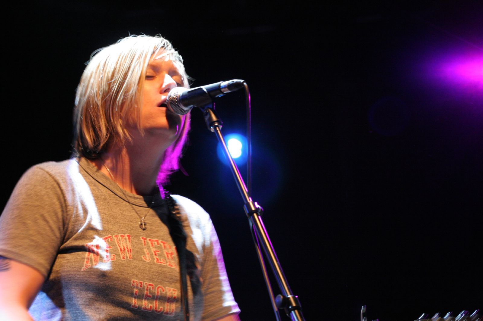 Garrison Starr opening for Girlyman at the Highline Ballroom, New York City.